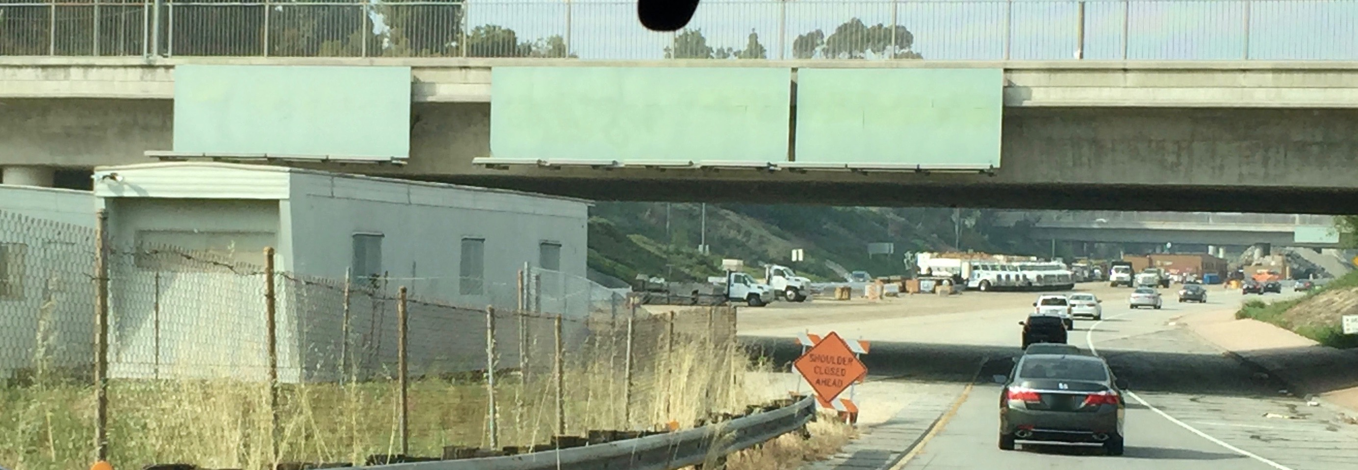 Merging onto the northern stub of I-710 in downtown Pasadena. Note the unused freeway signs.